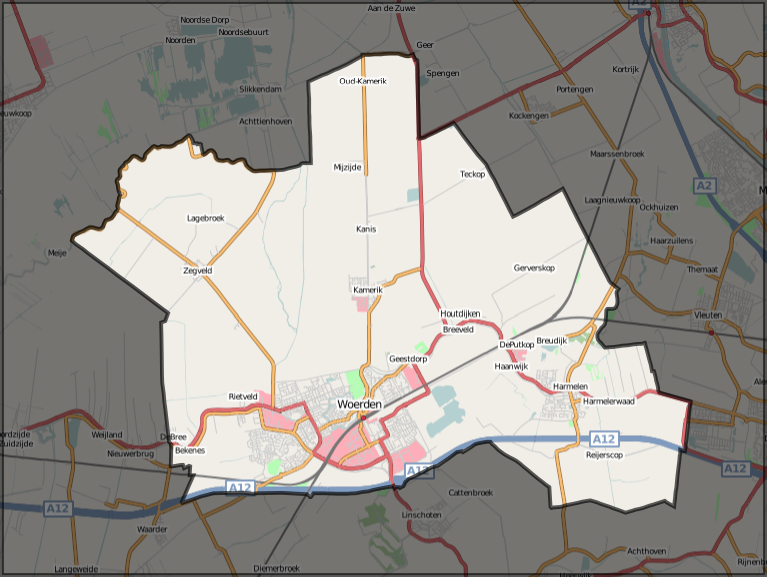 map of municipality of Woerden (Netherlands), overlayed with its borders, also from OSM (but downloaded the raw data using JOSM and converted to svg).